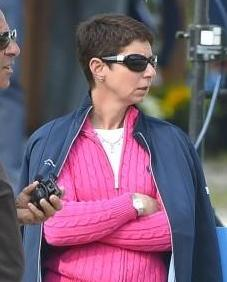 From left to right: Isabell Werth, Jonny Hilberath and Monica Theodorescu. CDI 5* Pferd International Munich-Riem 2015.